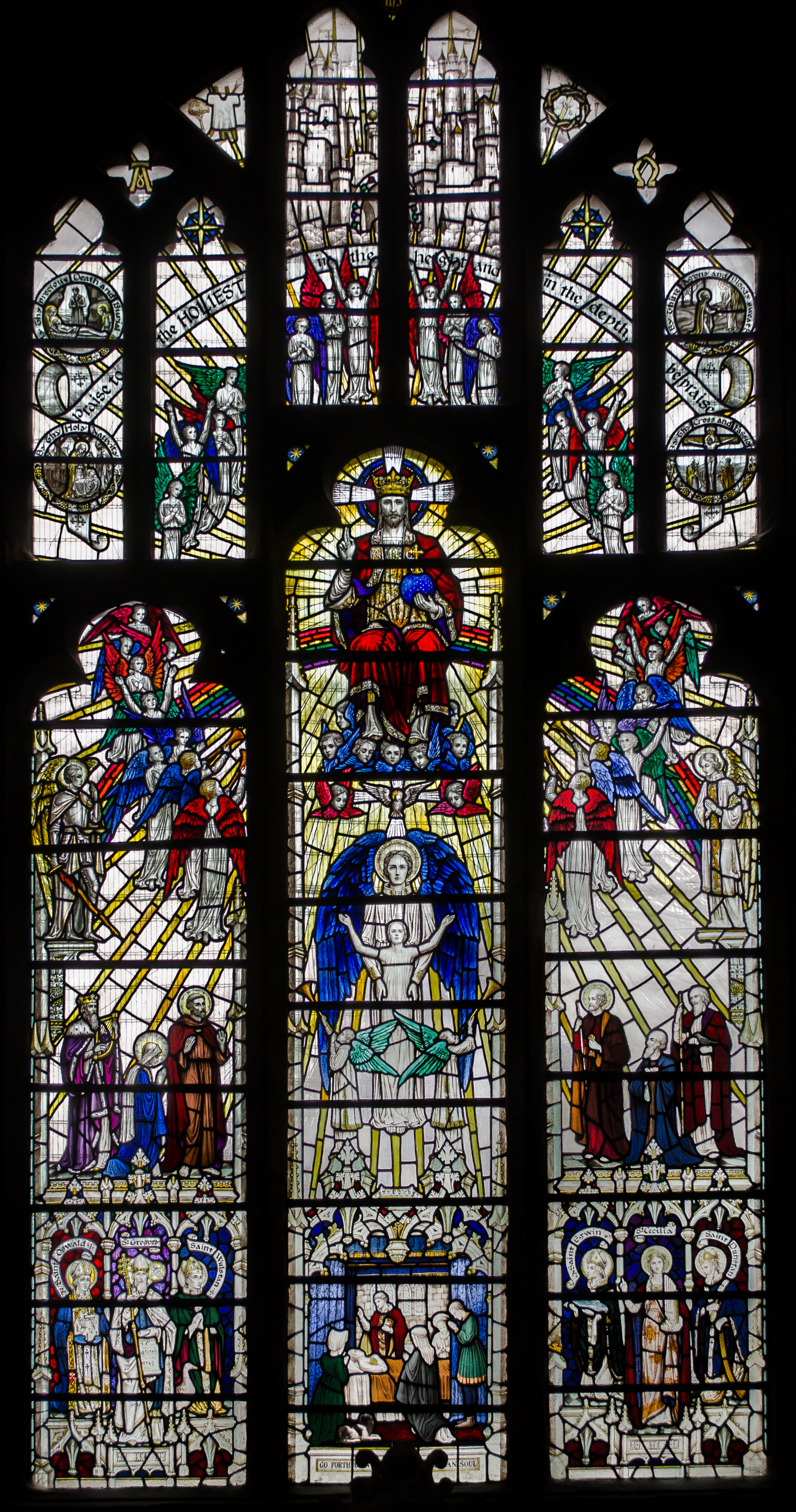 The Elgar Window by A. K. Nicholson, 1935, based on the Dream of Gerontius. The window shows Gerontius ascending to the Heavenly City, surrounded by figures from the Bible. Memorial to Sir Edward Elgar.